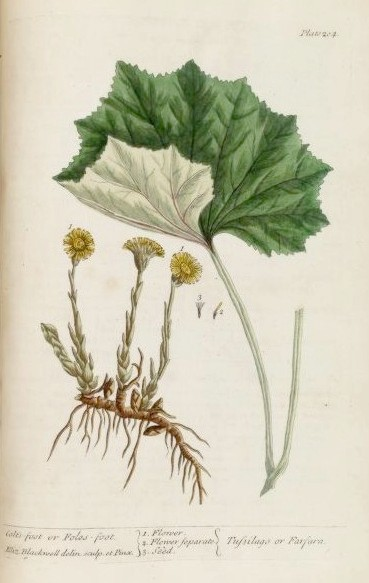 Plate from "A curious herbal" - Tussilago farfara L.